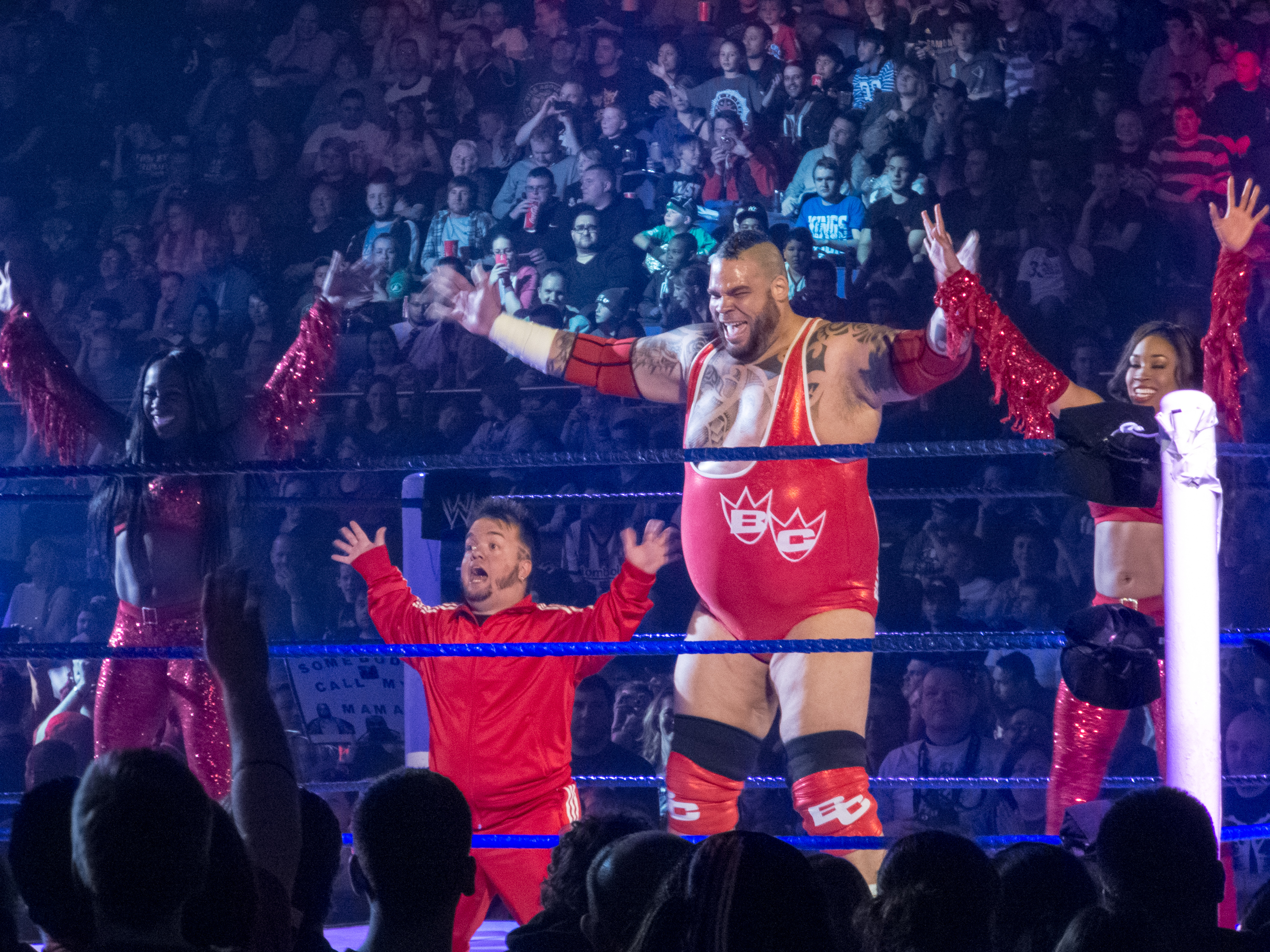 Brodus Clay vs. Hunico